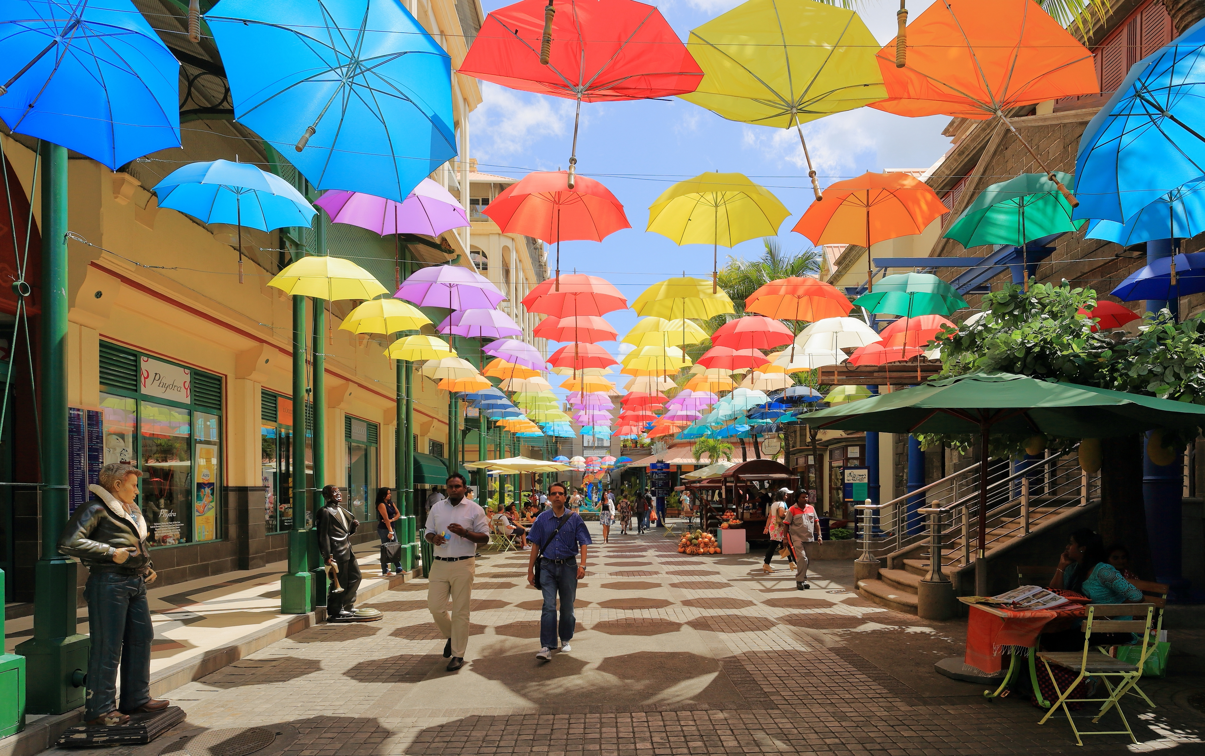 Colorful umbrellas at Caudan Waterfront Mall, Port Louis, Mauritius